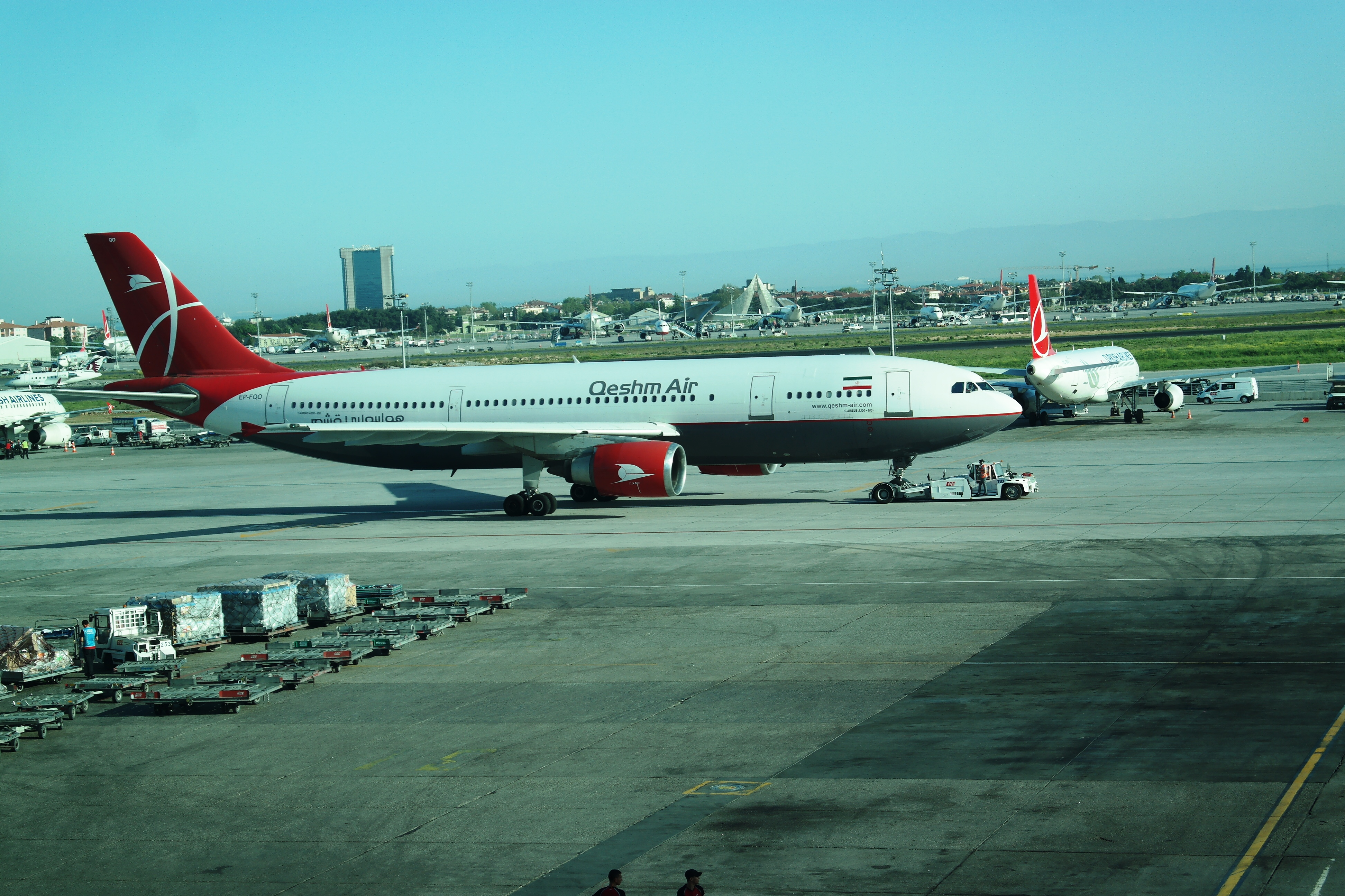 Qeshm Airlines AIrbus A300-600 at Istanbul-Atatürk Airport